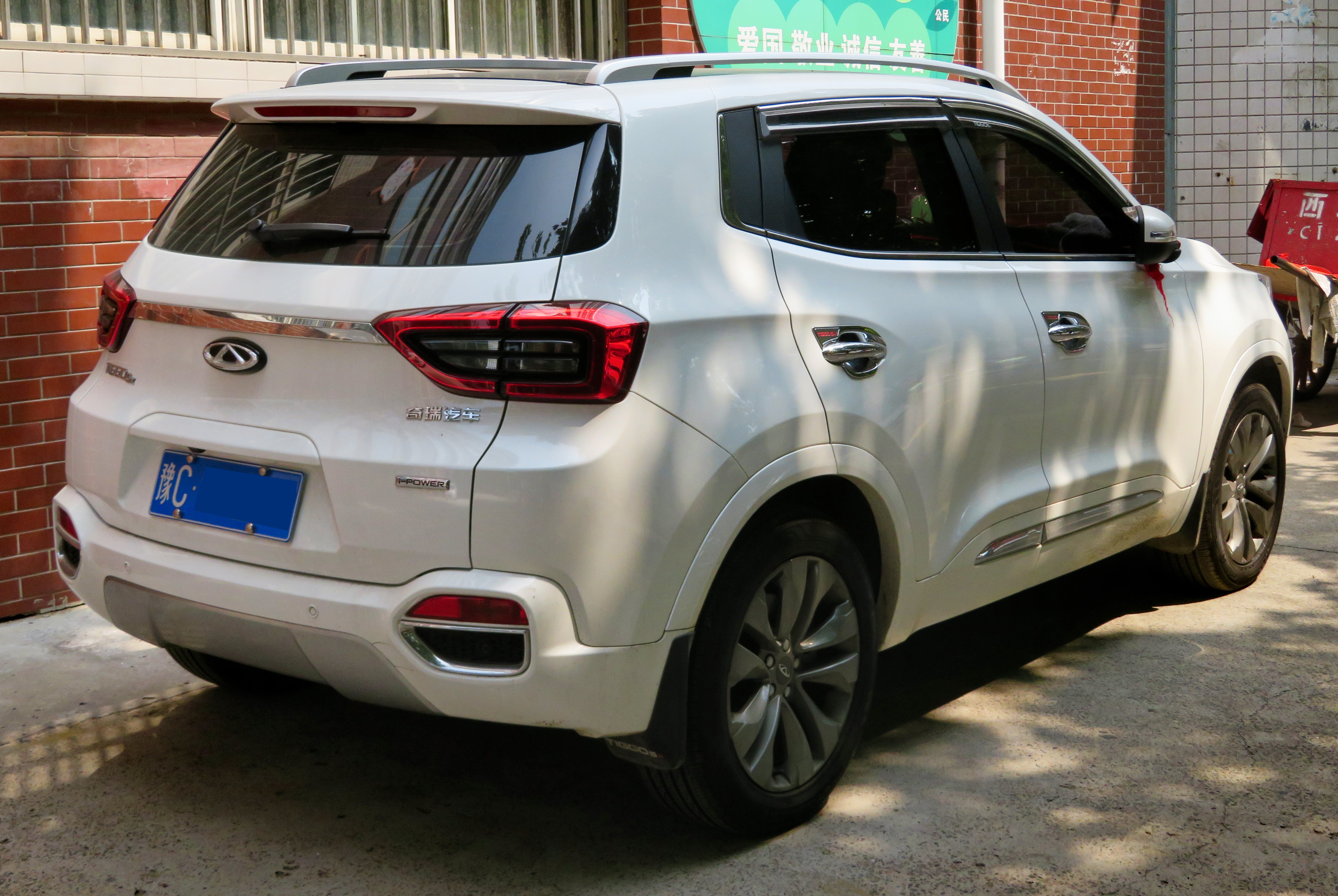 A 2018 Chery Tiggo 5x photographed in Xigong District, Luoyang, Henan province, China